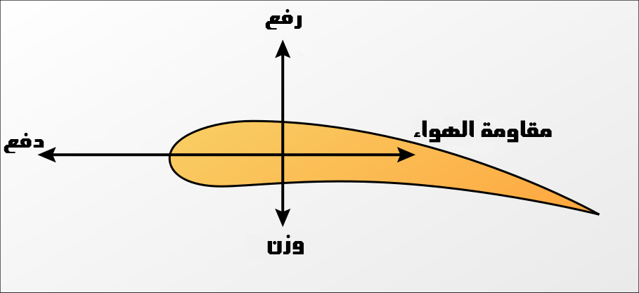 The Forces acting on a plane wing in arabic.